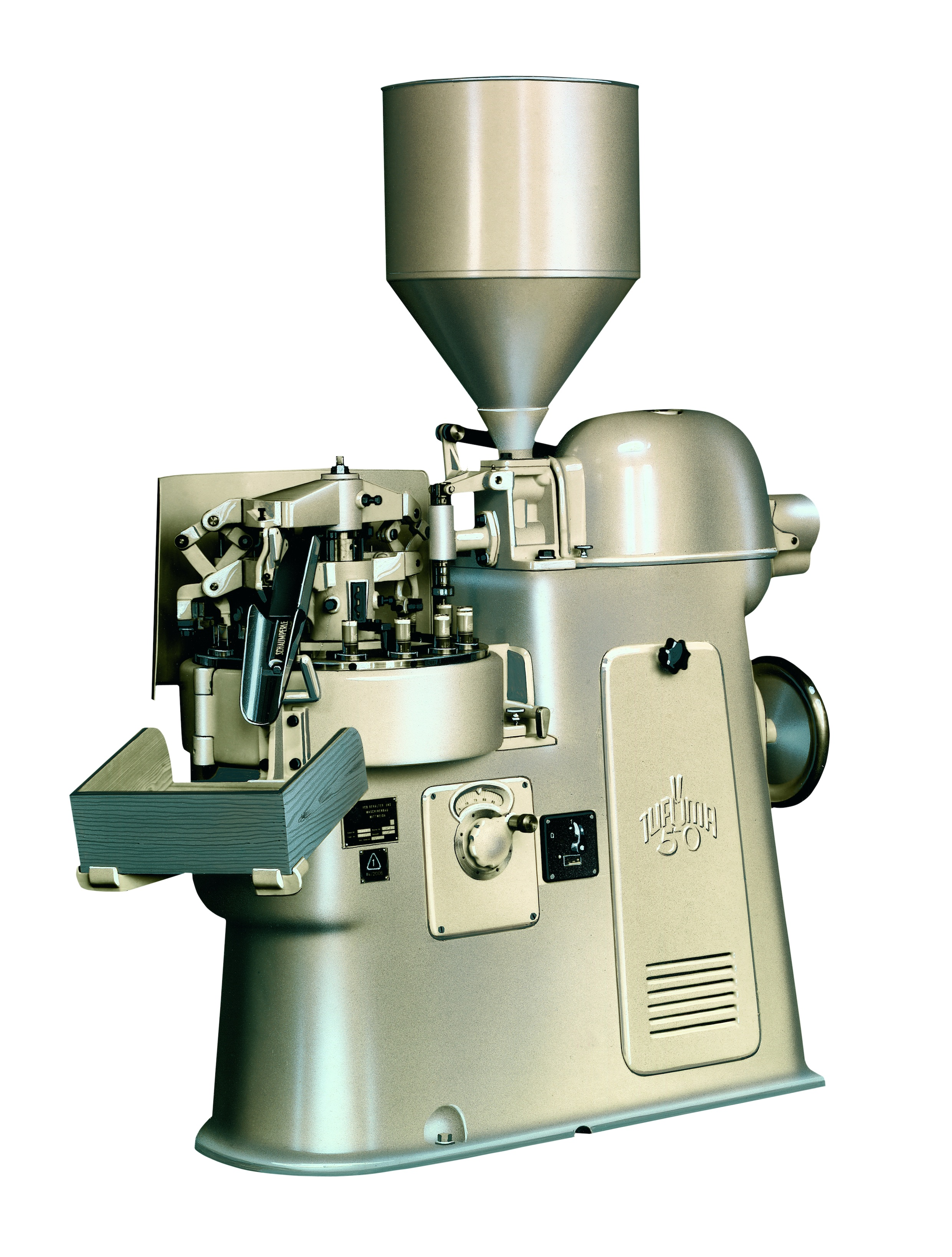 Old Tube Filling Machine from GDR (TUFÜMA 50)